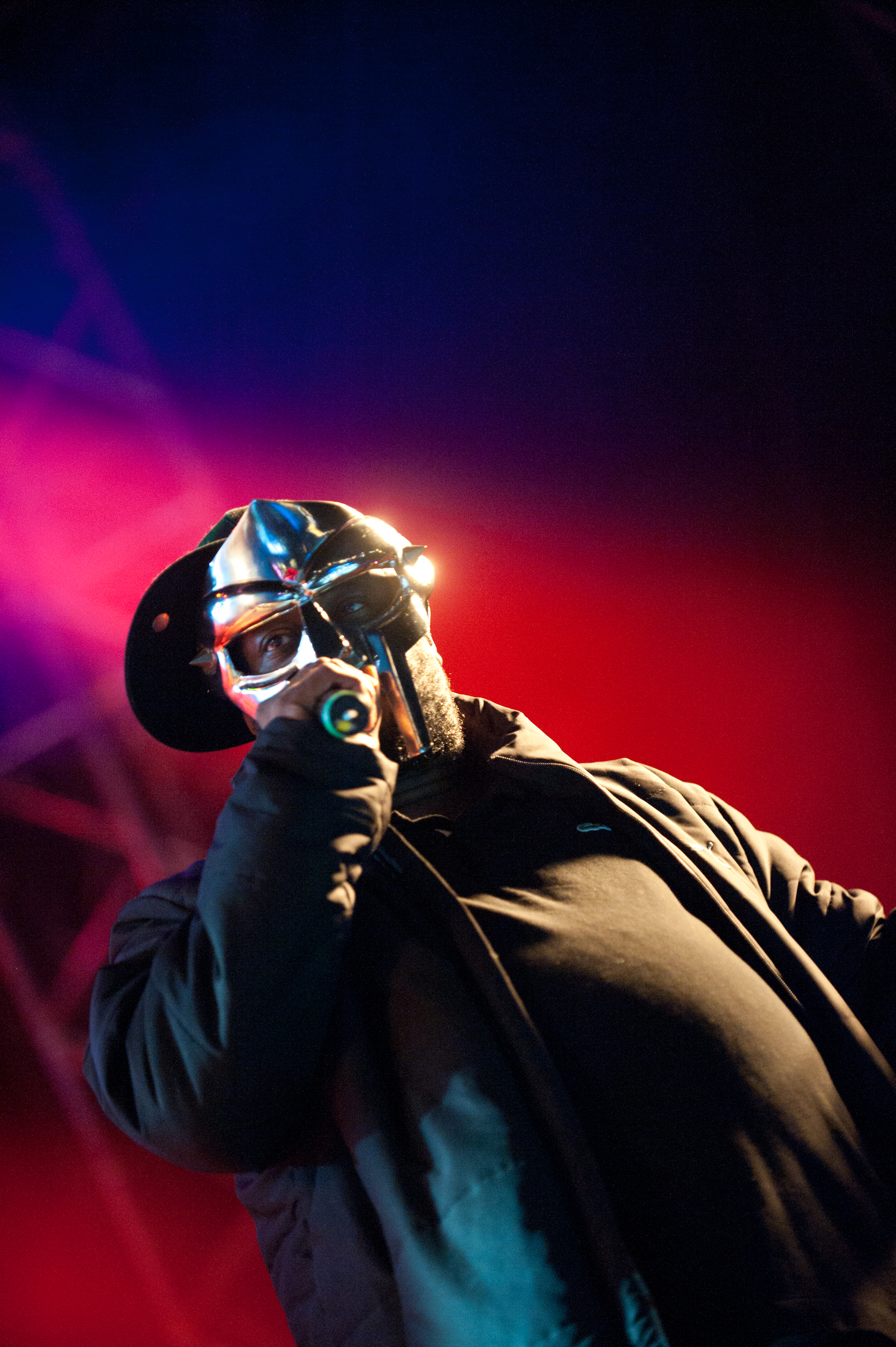 MF Doom, taken at Hultsfredsfestivalen 2011